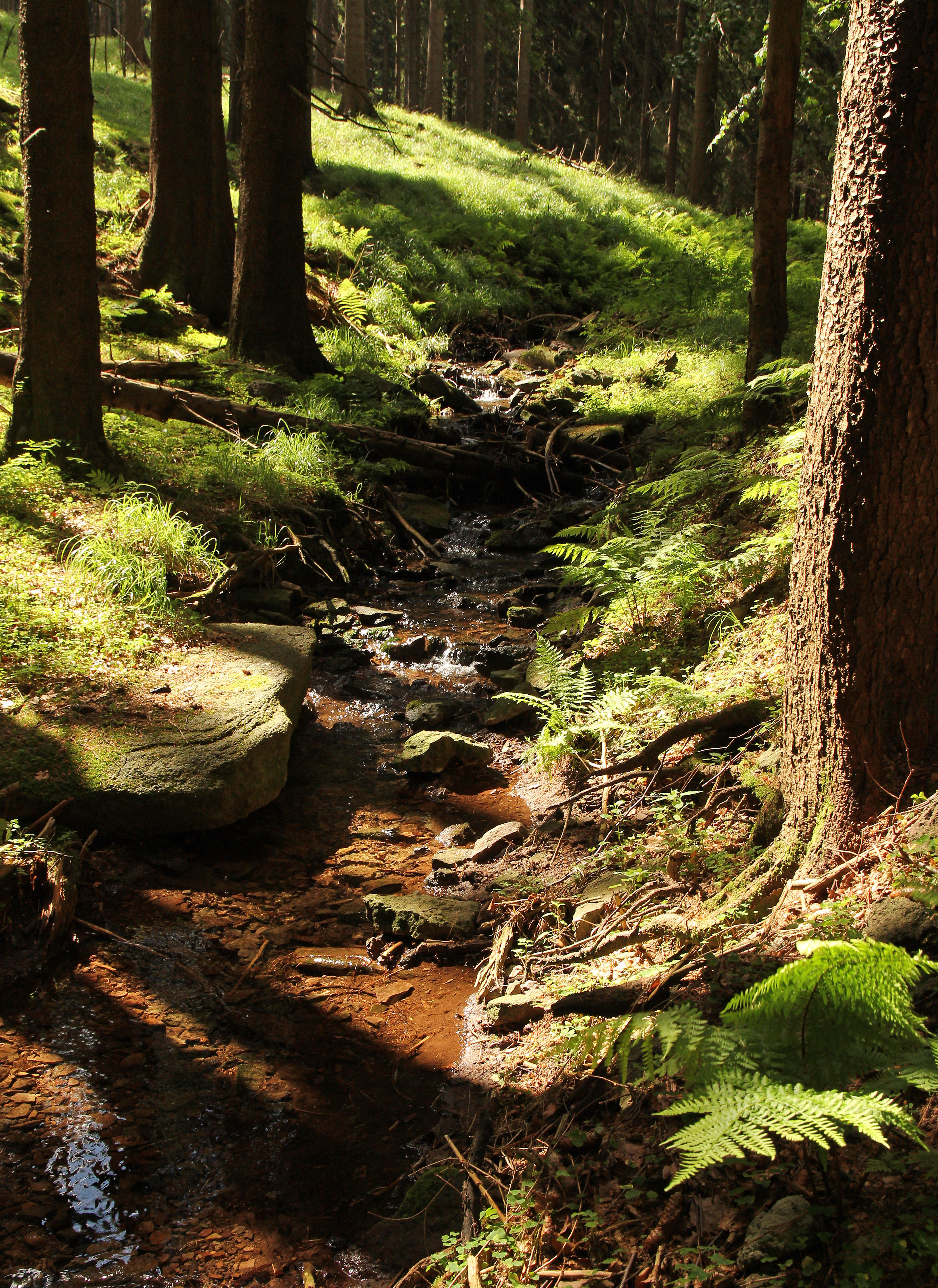 stream Wilde Gera in Schneetiegel valley